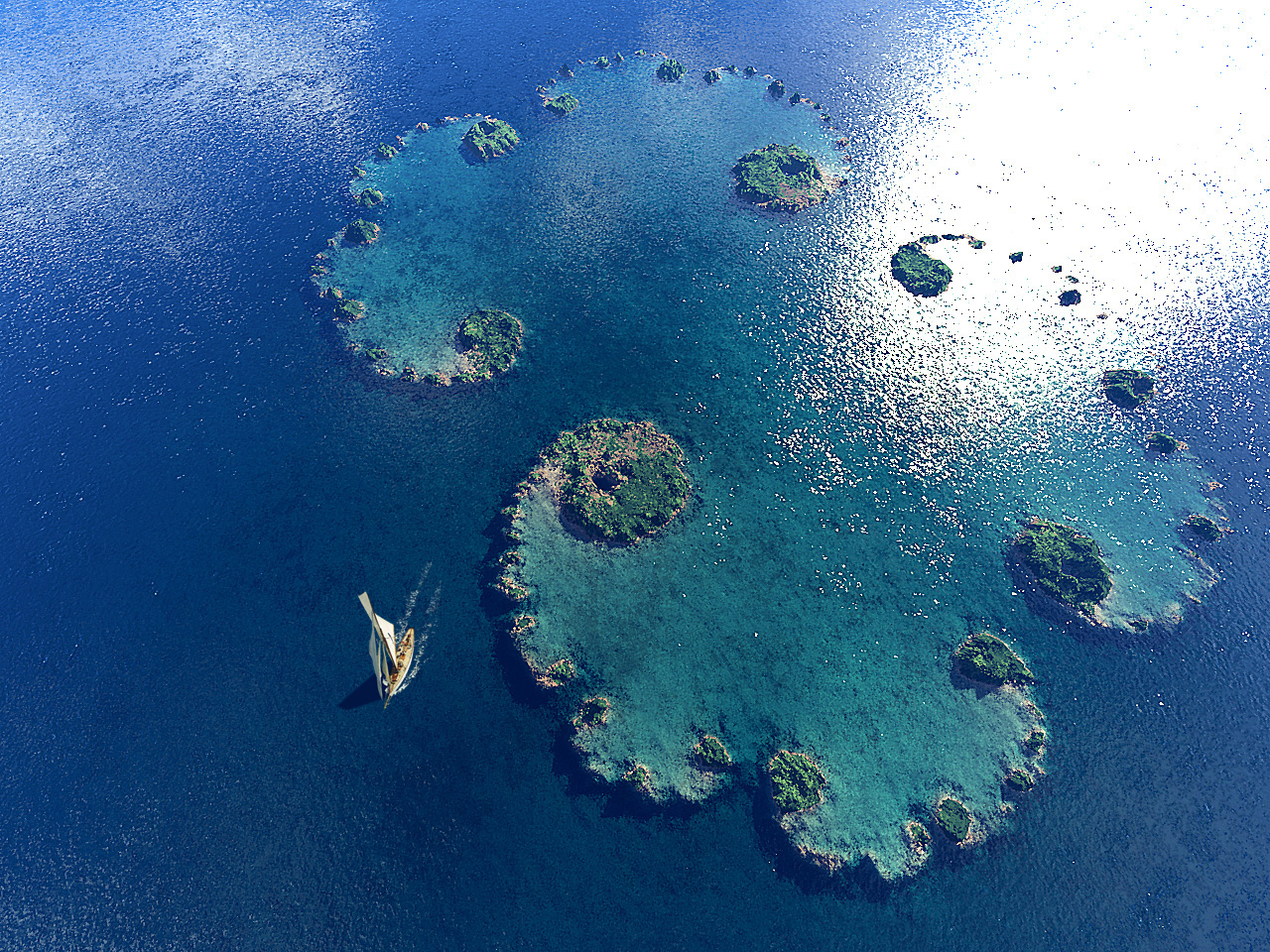 Julia set rendered as a landscape with Terragen. Fractal previously created with Ultrafactal (coordinates around 0.28 + 0i) and saved as a terrain with Terraformer. Boat added and level adjustments made with Photopshop.